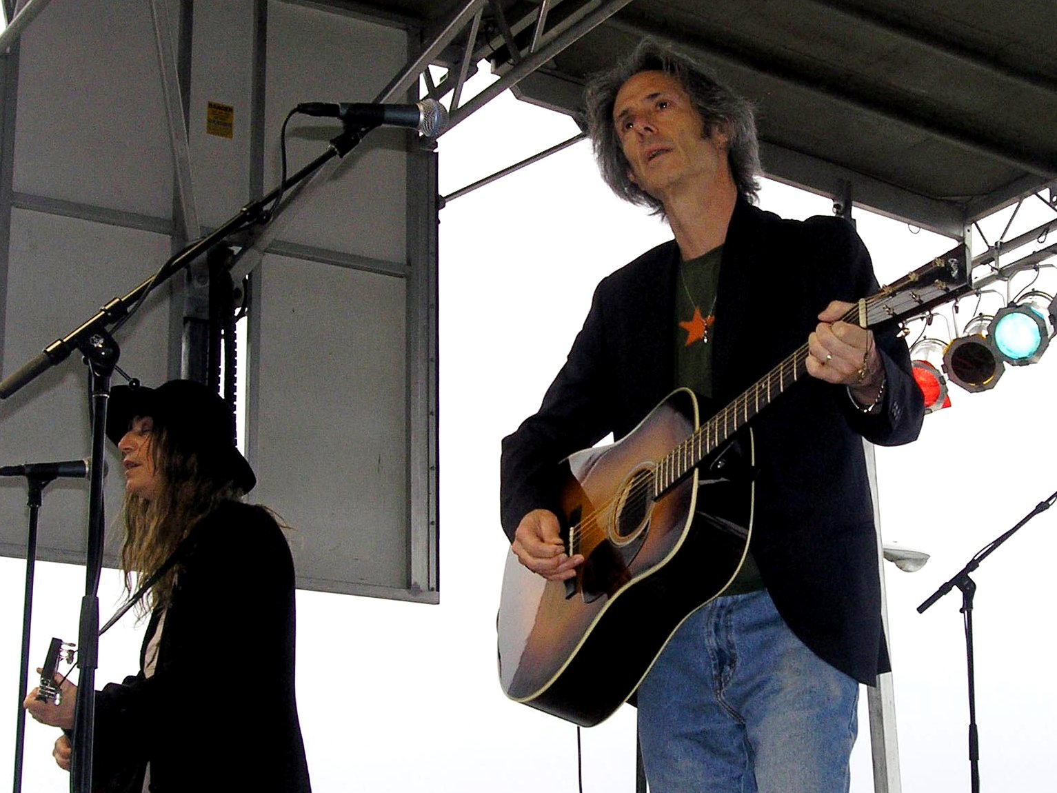 Patti Smith and Lenny Kaye performing at Lollapalooza festival, Grant Park, Chicago, United States.